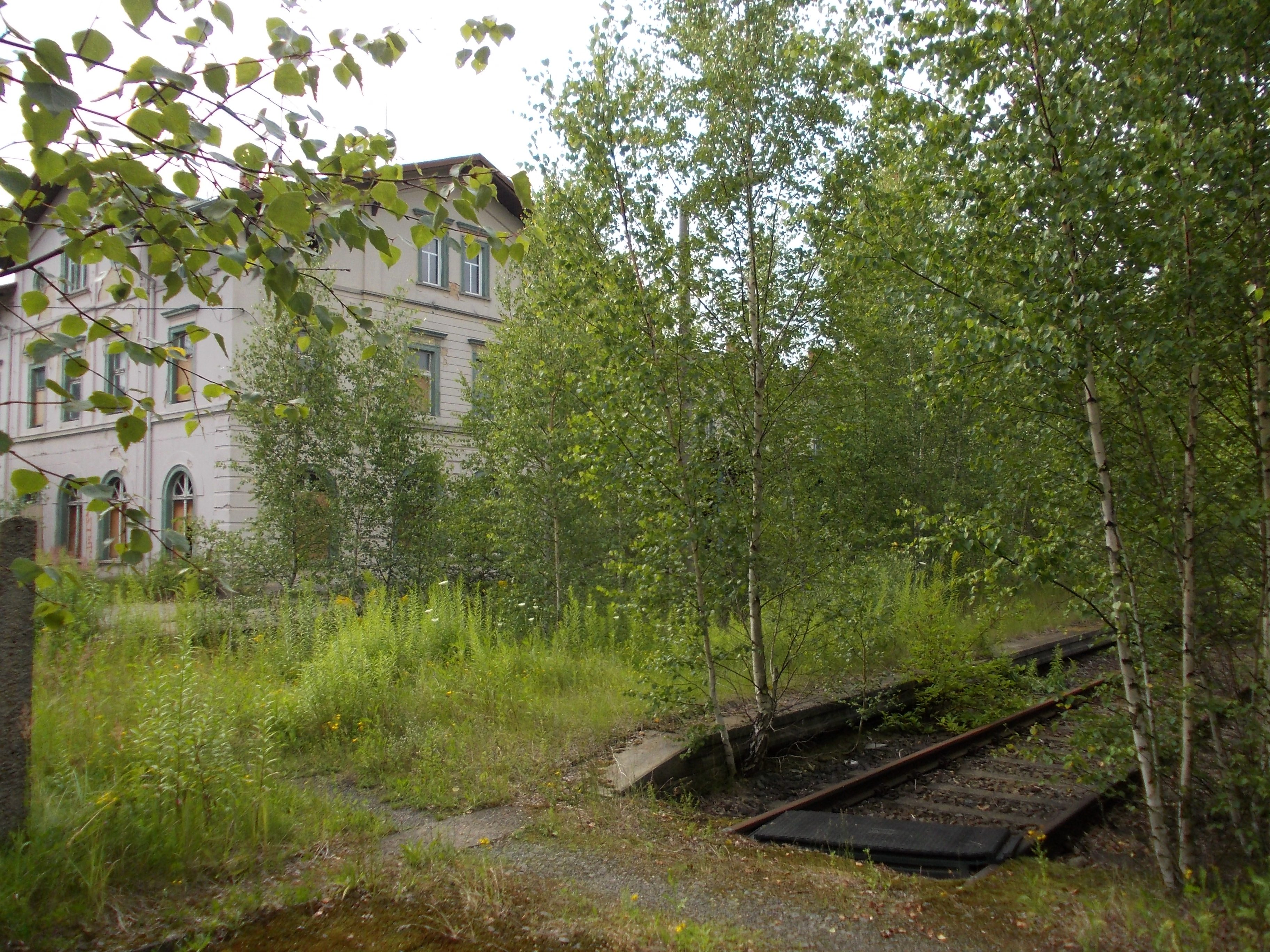 Oberoderwitz train station (Oderwitz, Görlitz district, Saxony), view from the former Zittau-Löbau railway line